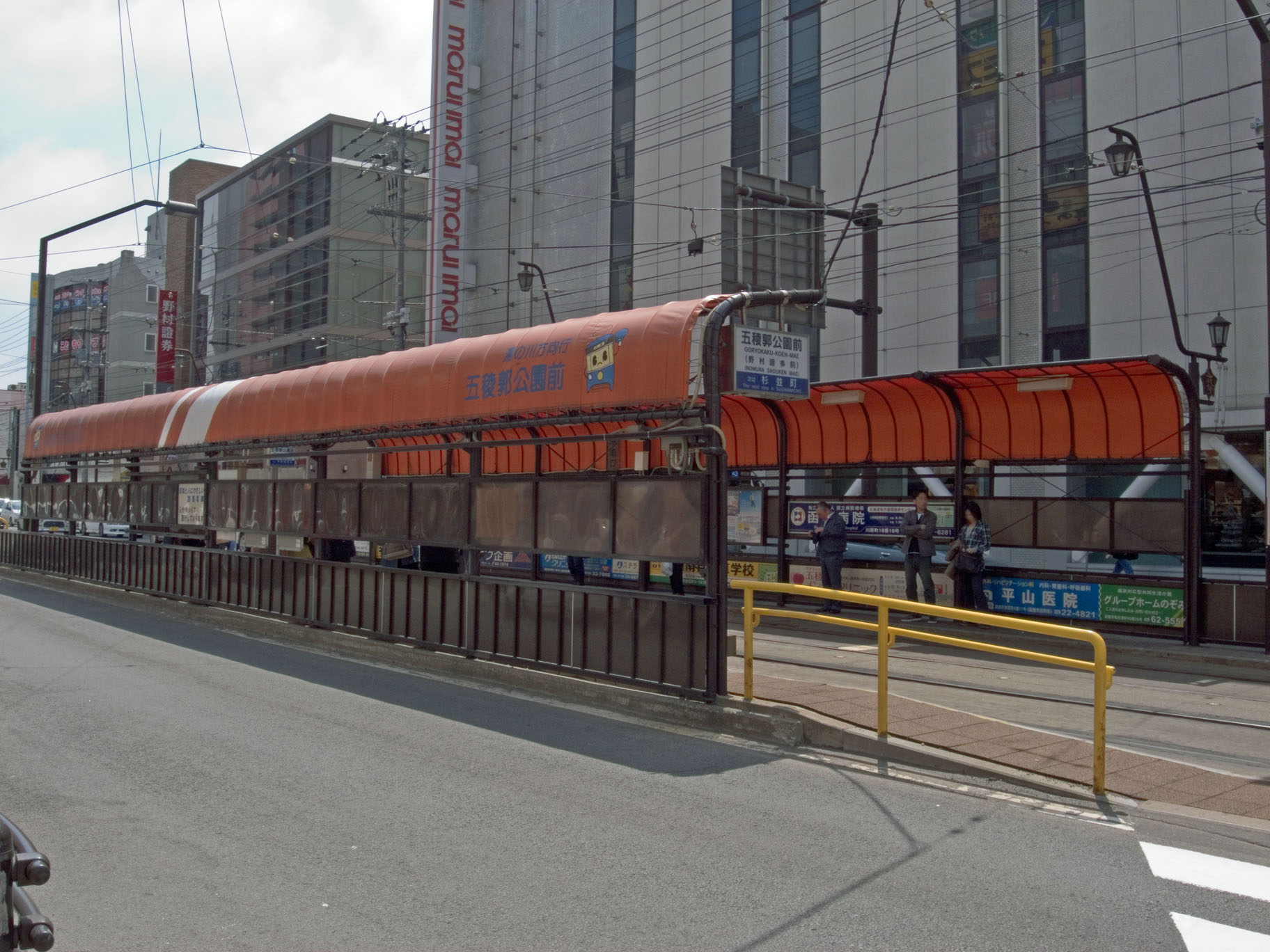 The Goryoukaku-koen-mae station in Hakodate tram, Hokkaido, Japan